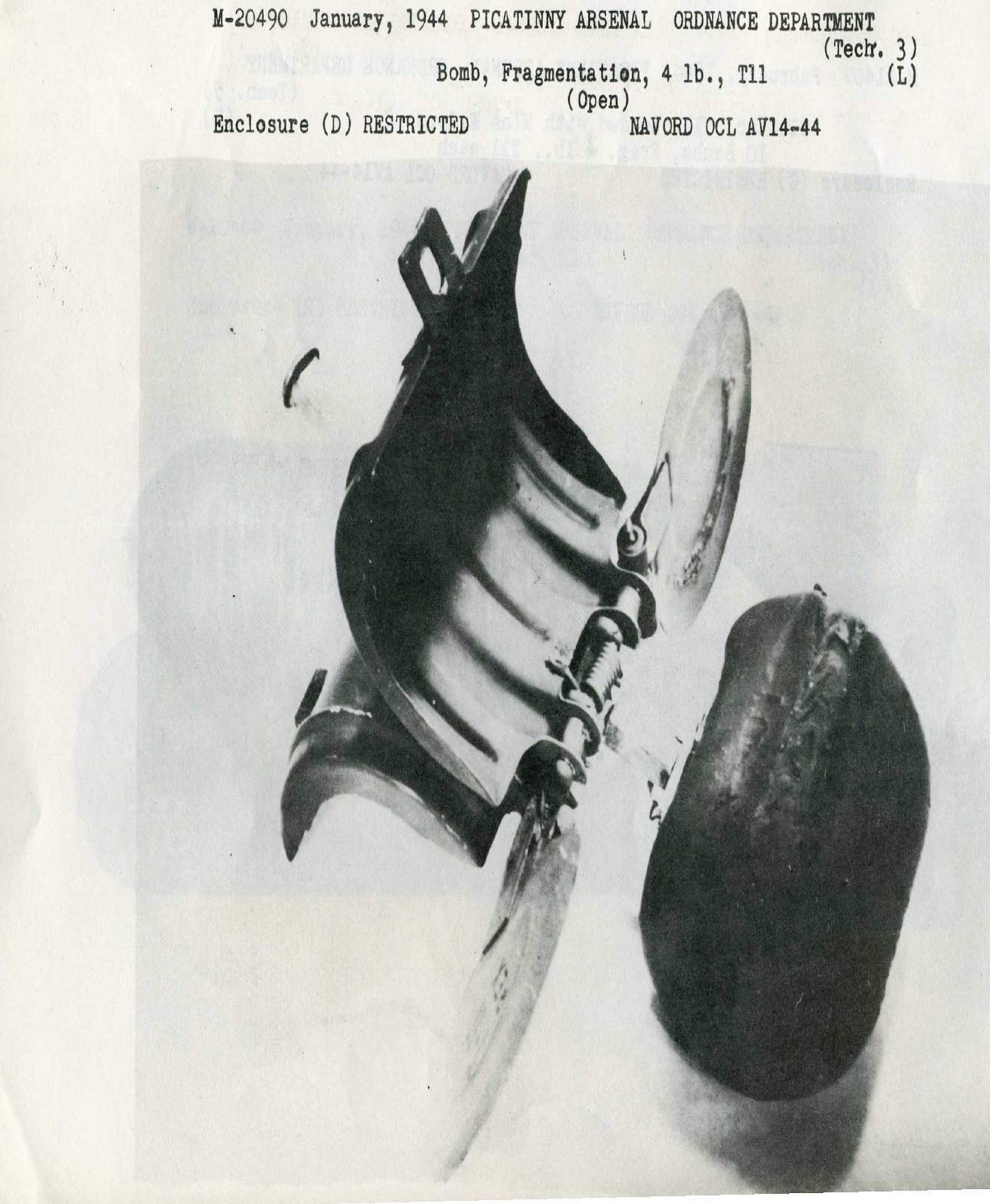 M83 cluster submunition used in the M29 and M28 cluster bombs. The M83 was a US copy of the German Butterfly Bomb. The bomb is shown with its "wings" deployed.